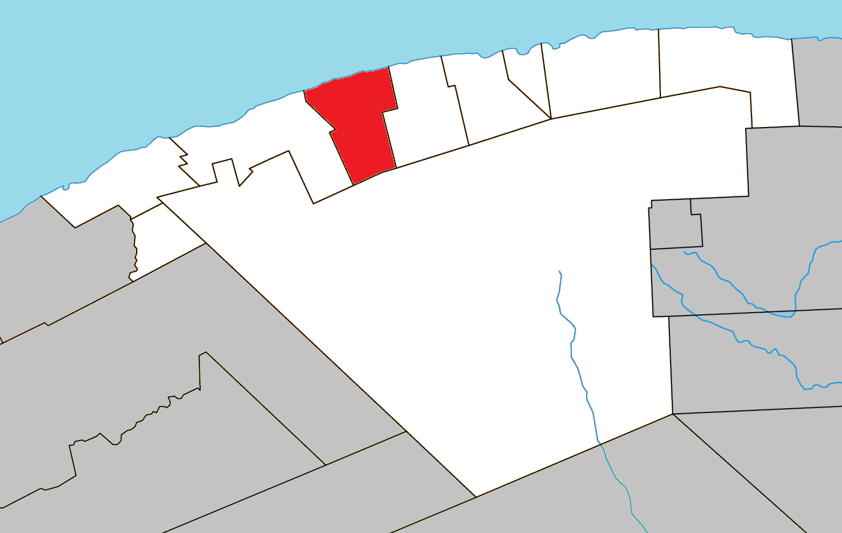 Location of La Martre, Quebec within La Haute-Gaspésie Regional County Municipality.